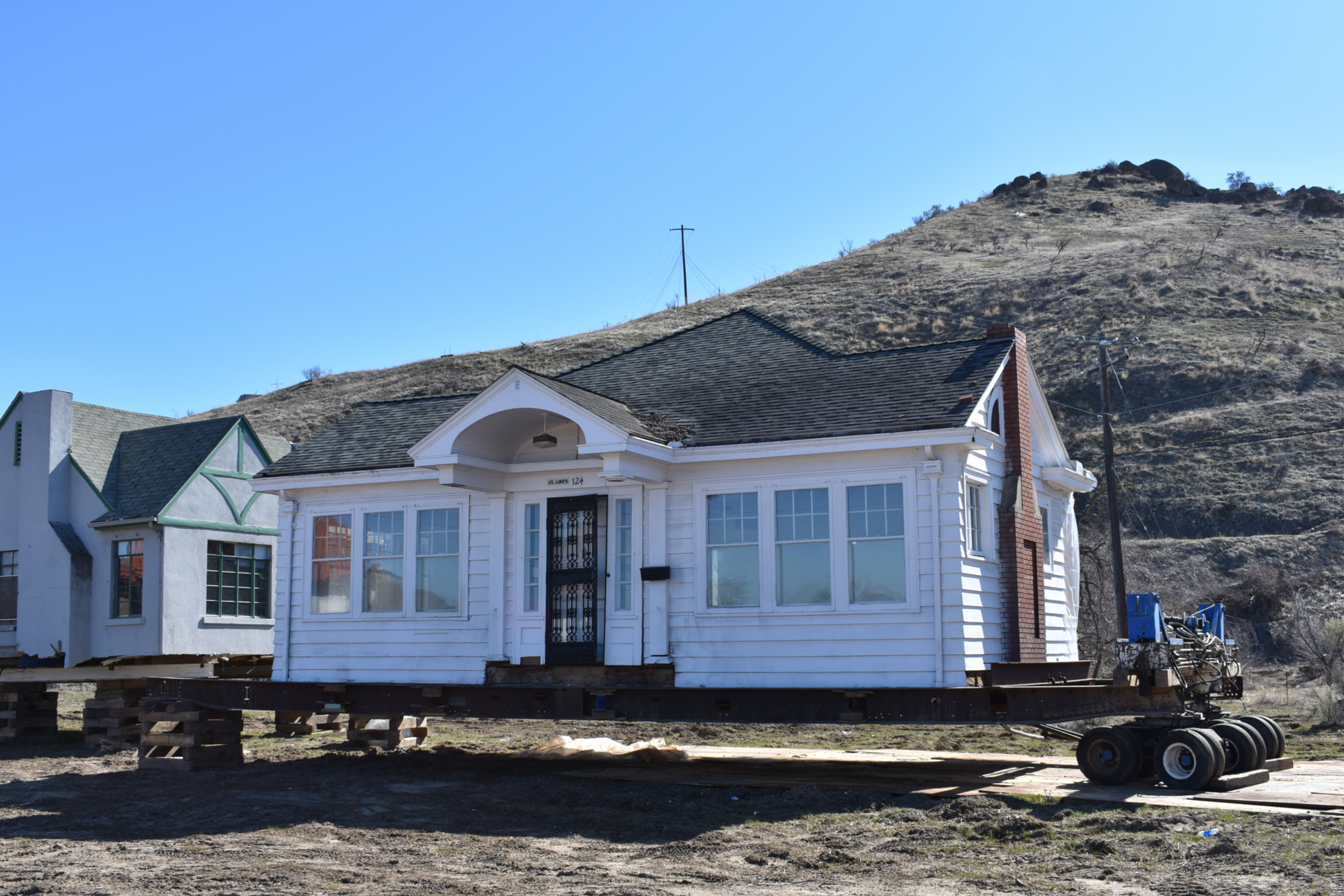 The H.C. Burnett House (1924) in Boise, Idaho, was designed by Tourtellotte & Hummel and is listed on the National Register of Historic Places. The house was moved from its original address at 124 Bannock Street to make room for an expansion of St. Luke's Boise Medical Center, and it may be moved again prior to restoration.